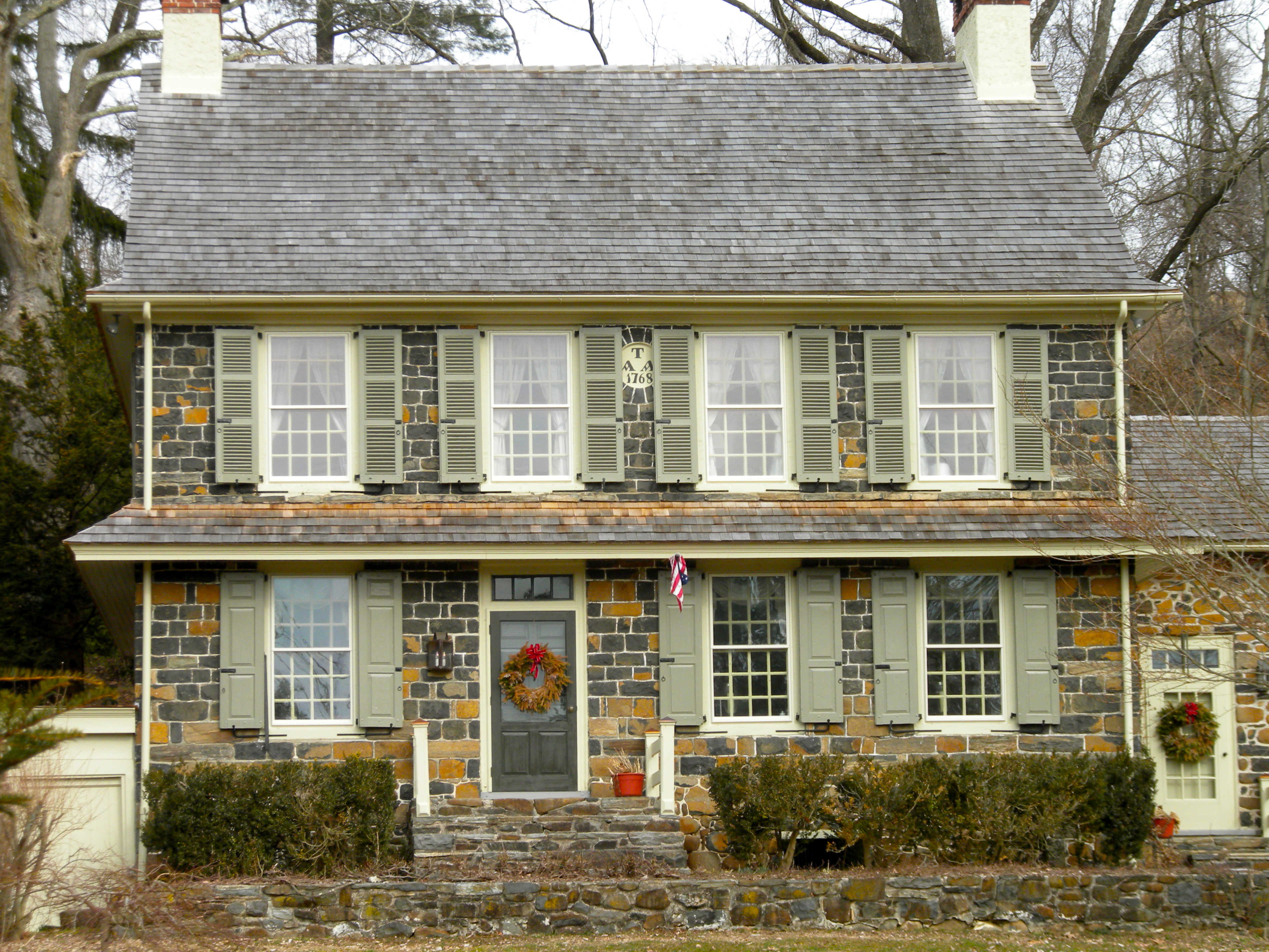 The Abiah Taylor House ("Taylor 1768 house") in the Taylor-Cope Historic District on Strasburg Road. On NRHP since July 16, 1987. At 890–1100 blocks of Strasburg Road/Pennsylvania Route 162 east of Marshallton, in Southern Chester County, PA East Bradford Township